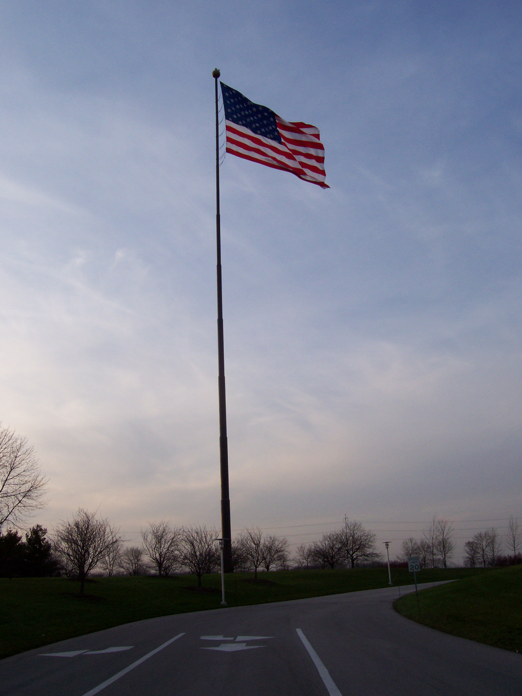 The flagpole for Acuity Insurance in Sheboygan, Wisconsin, USA. The flagpole is one of the tallest in the world.